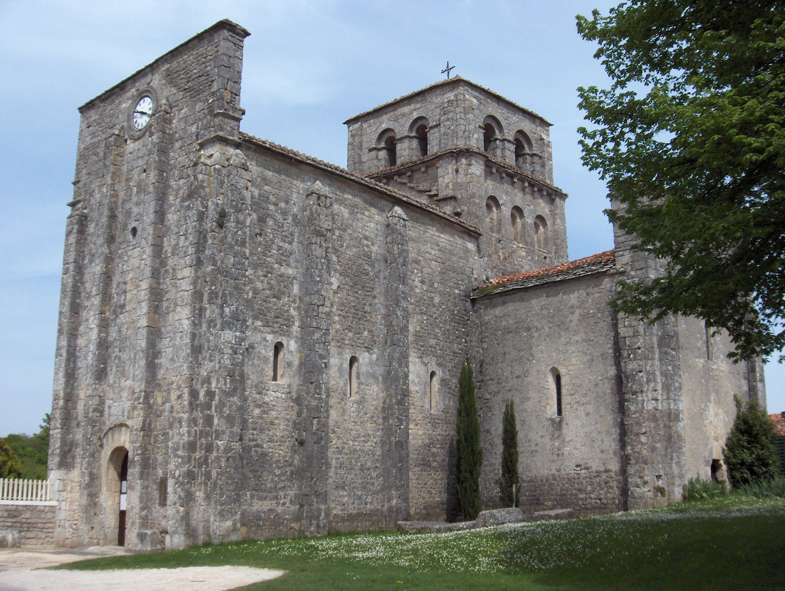 Church of Nanclars - Charente - France - Europa